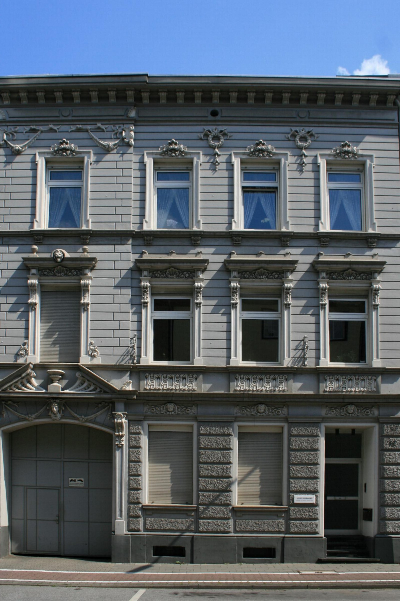 Cultural heritage monument No. B 058 in Mönchengladbach